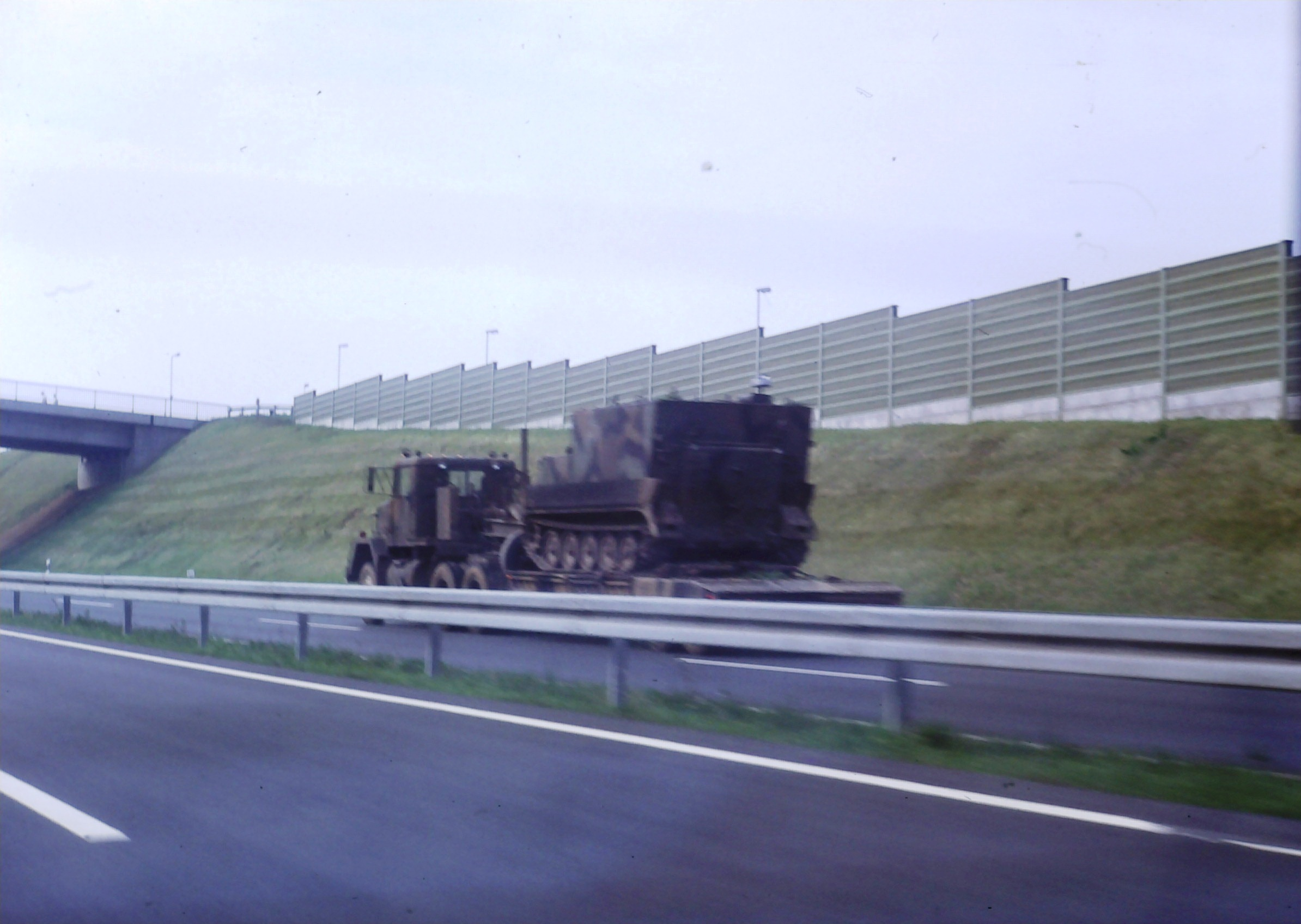 Part of a U.S. Army convoy on a West German autobahn, 1978